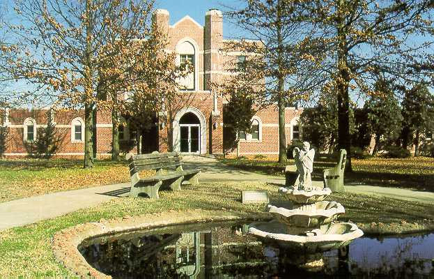 Photo of St. Gregory's Abbey in Oklahoma